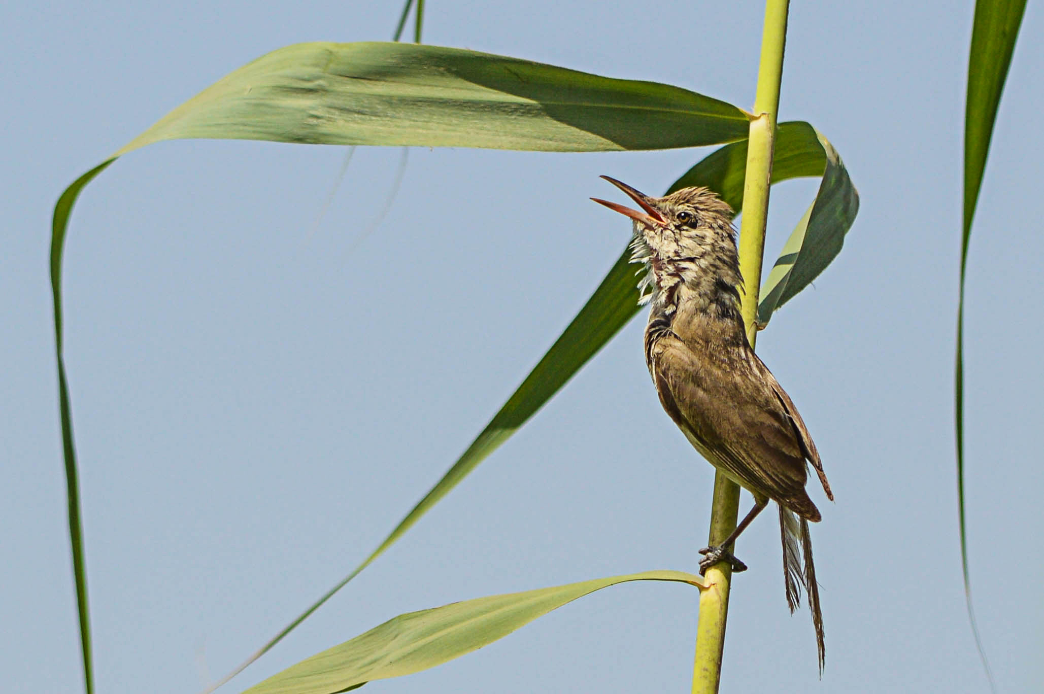 Clamorous Reed Warbler was in Egypt, Qalyubia Governorate,El Qanater el Khayreyya city